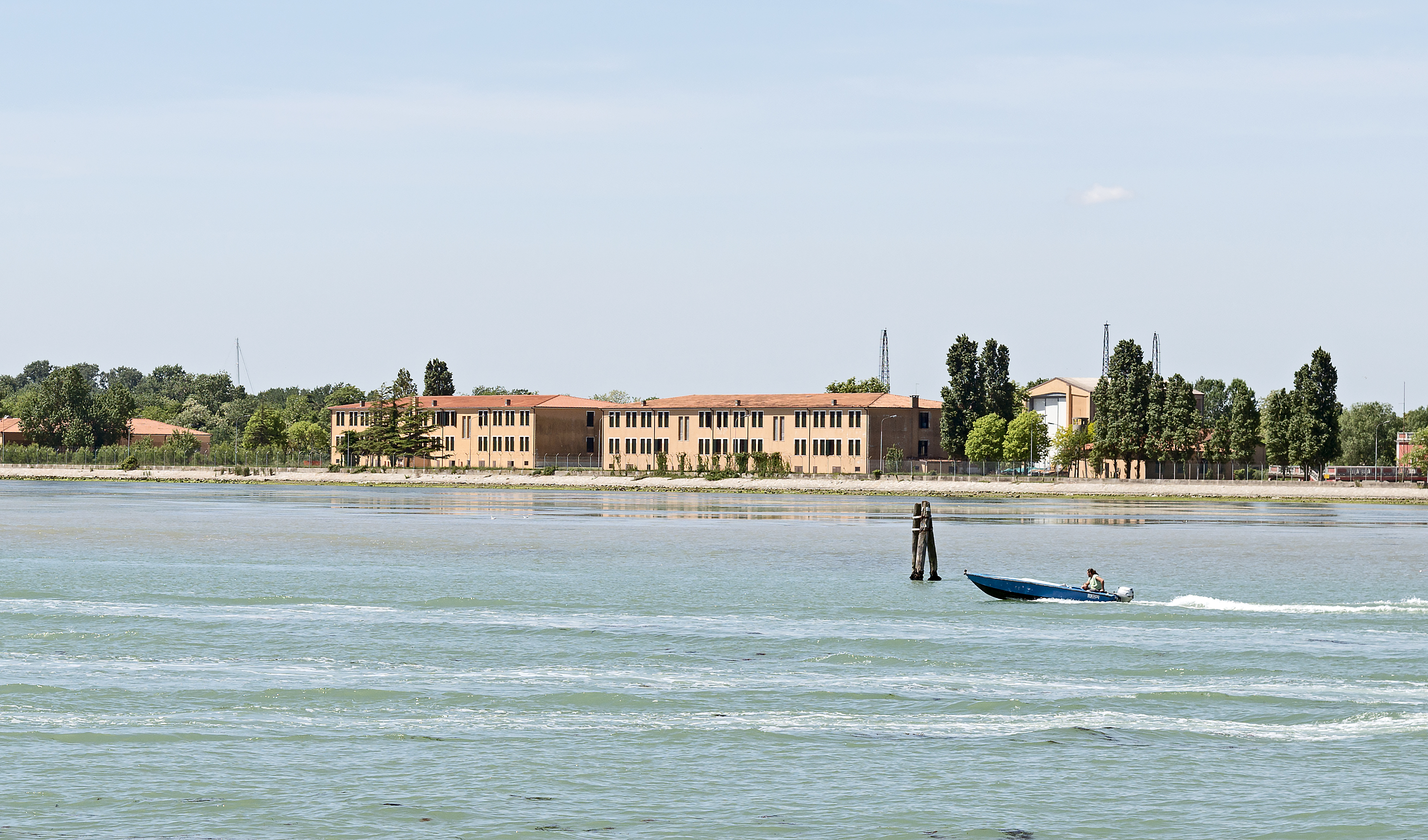 Barrack of Lagunari in San Andrea island in Venice – seen from the lagoon.